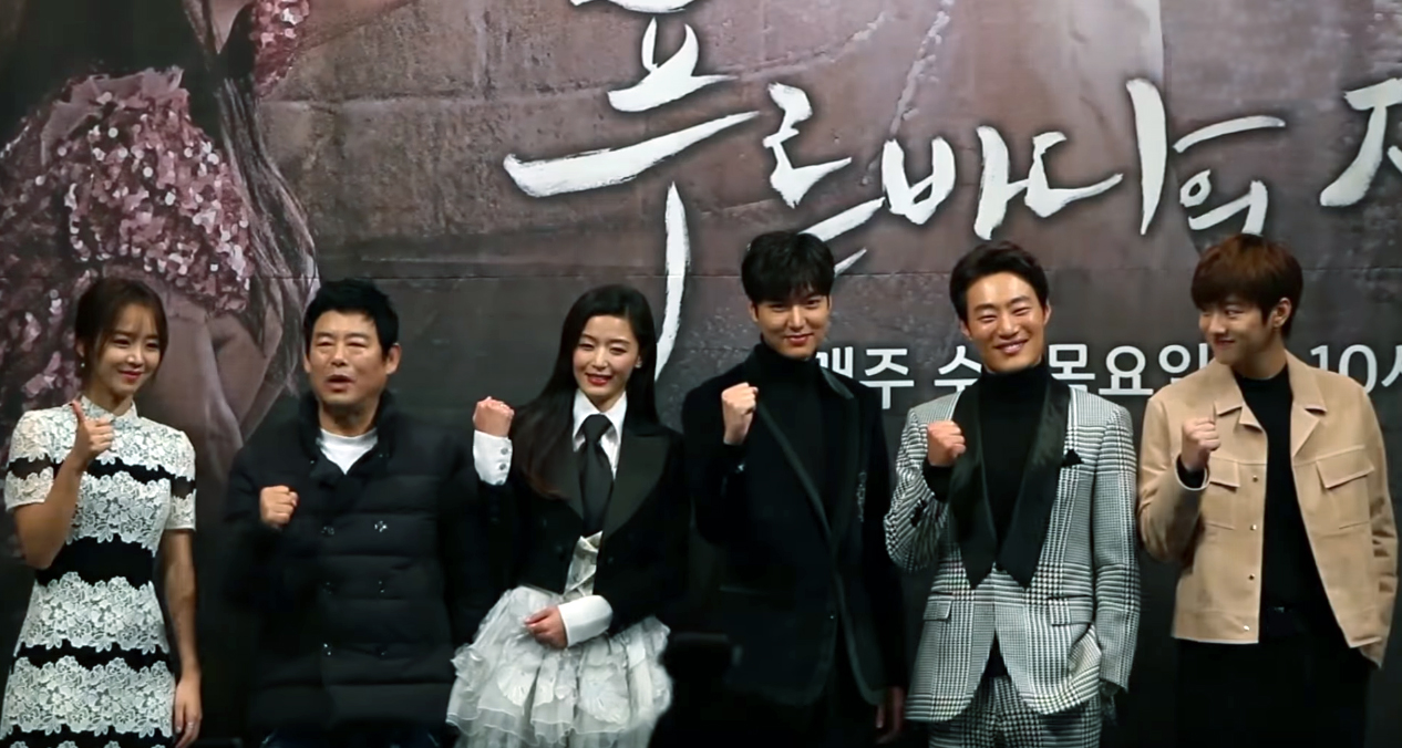 Legend of the Blue Sea press conference